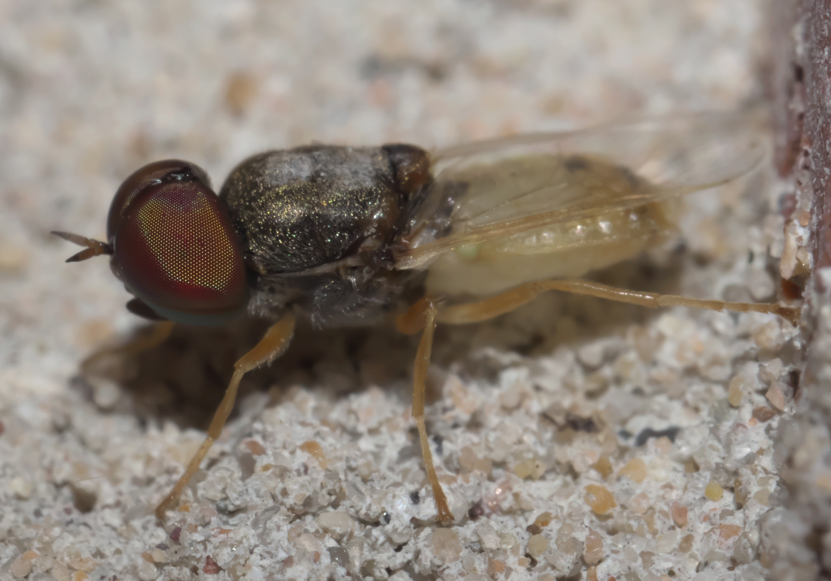 Hedriodiscus, Family: Soldier flies, ID Confidence: 98